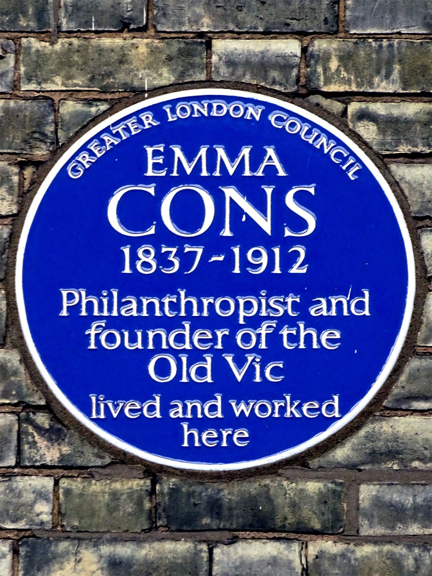 Blue plaque erected in 1978 by Greater London Council at 136 Seymour Place, Marylebone, London W1H 1NT, City of Westminster